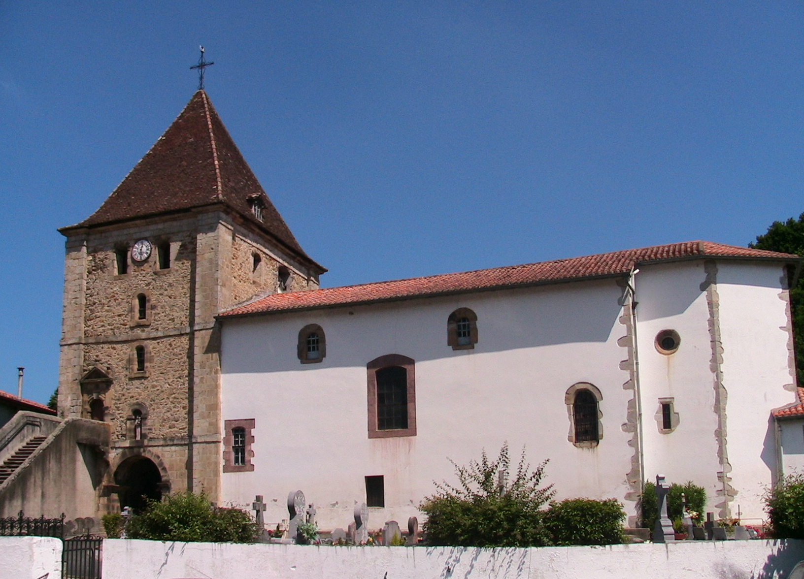 Église de Louhossoa.